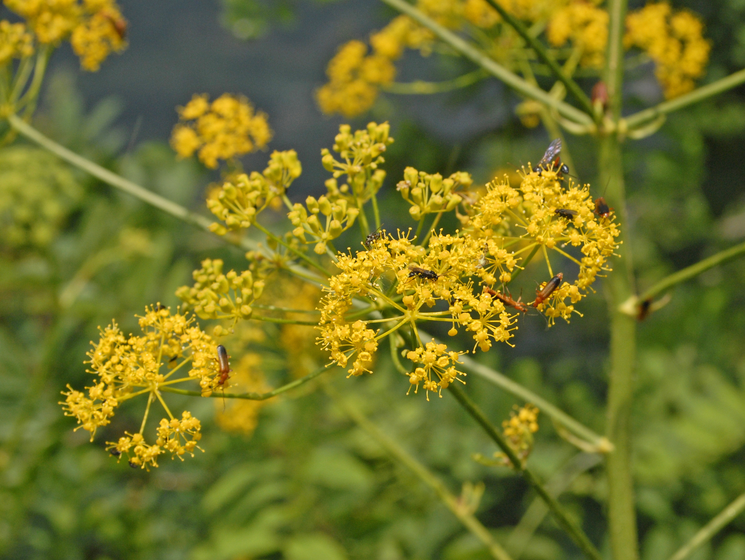 Flowers of Opopanax chironium. Monte Fasce, Genova, Italy